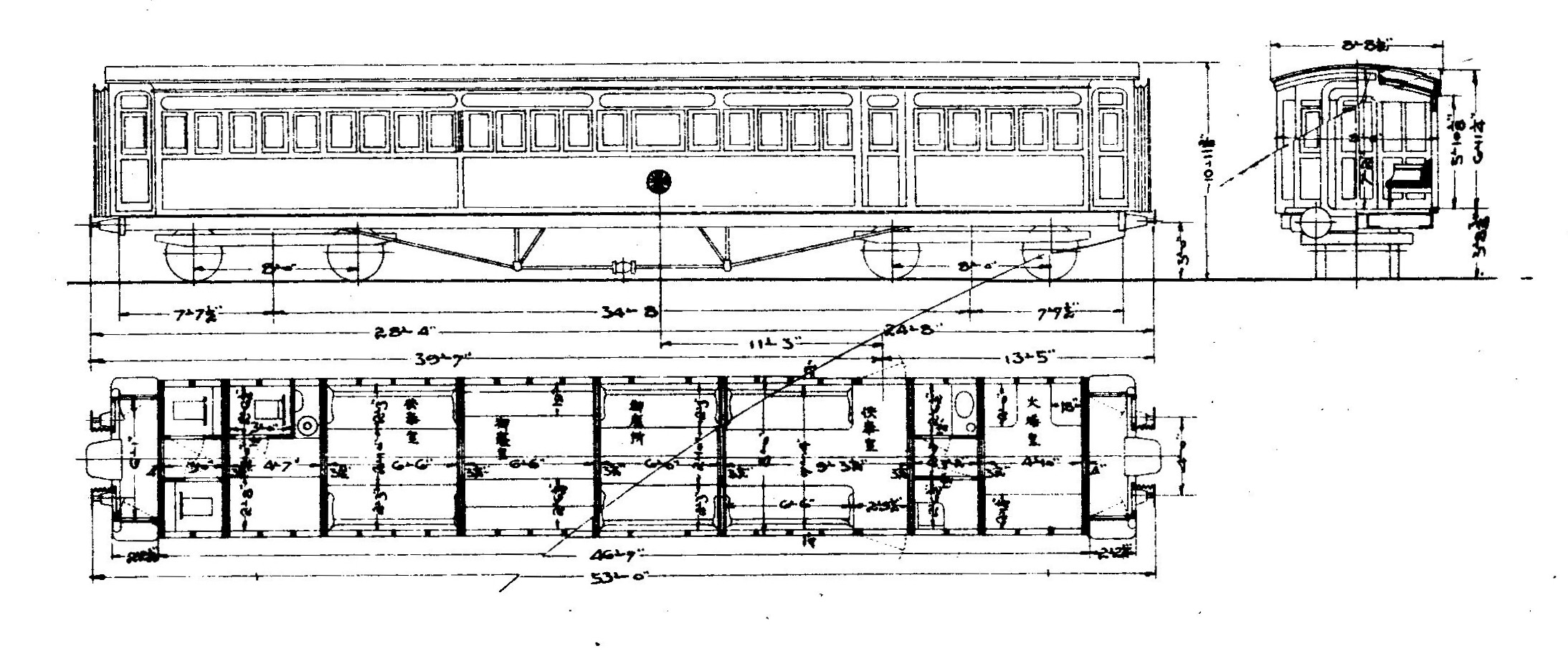 Type drawing of JGR's Imperial Car (Goryosha) No.4